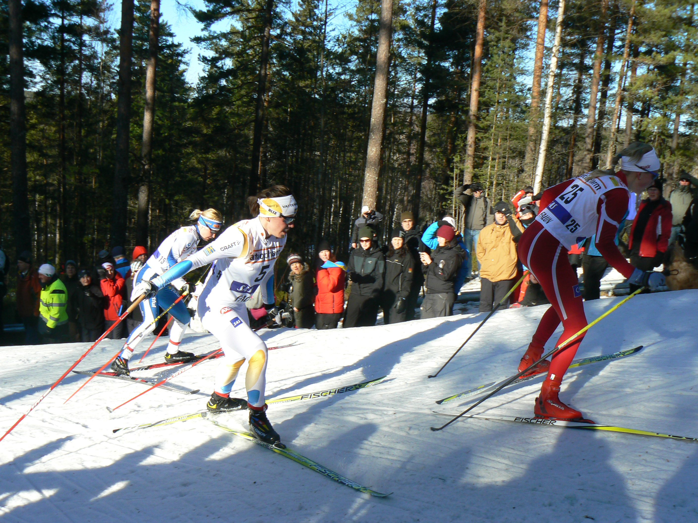 Cross country skiers Charlotte Kalla, Sweden (5), Riitta-Liisa Roponen, Finland (15) and Ingrid Aunet Tyldum, Norway (25) in the 7,5 + 7,5 km FIS World Cup race in Falun on February 43 2008.